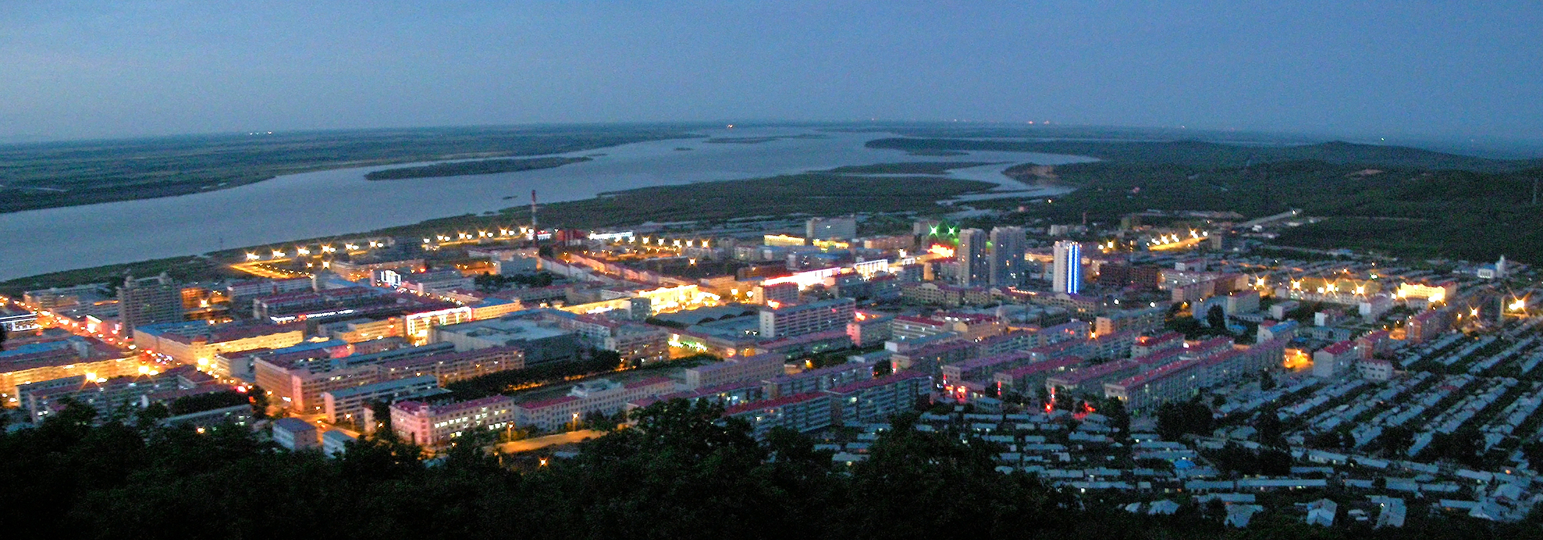 From Nanshan viewpoint